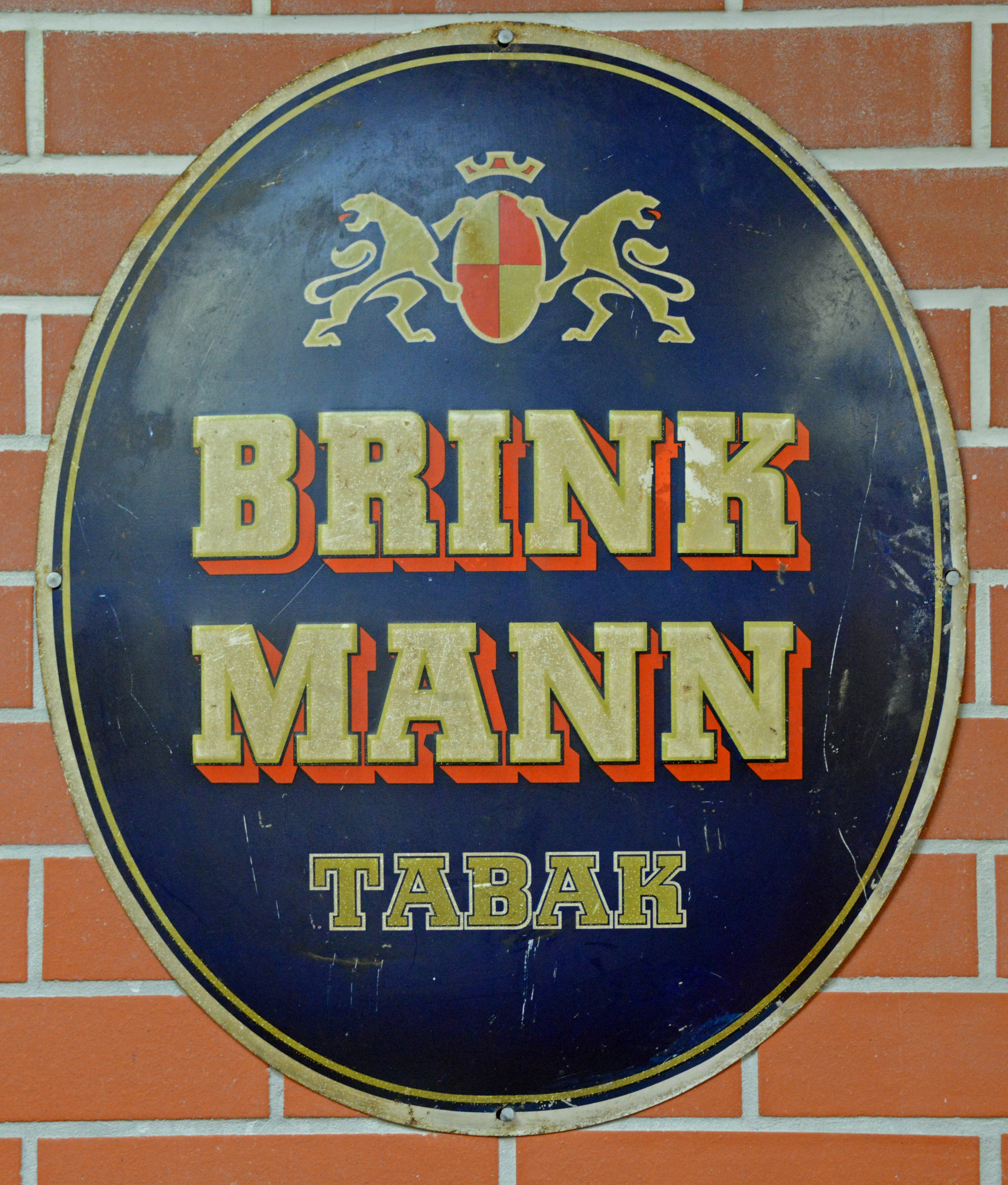 Billboard Brinkmann Tabak, Bremen